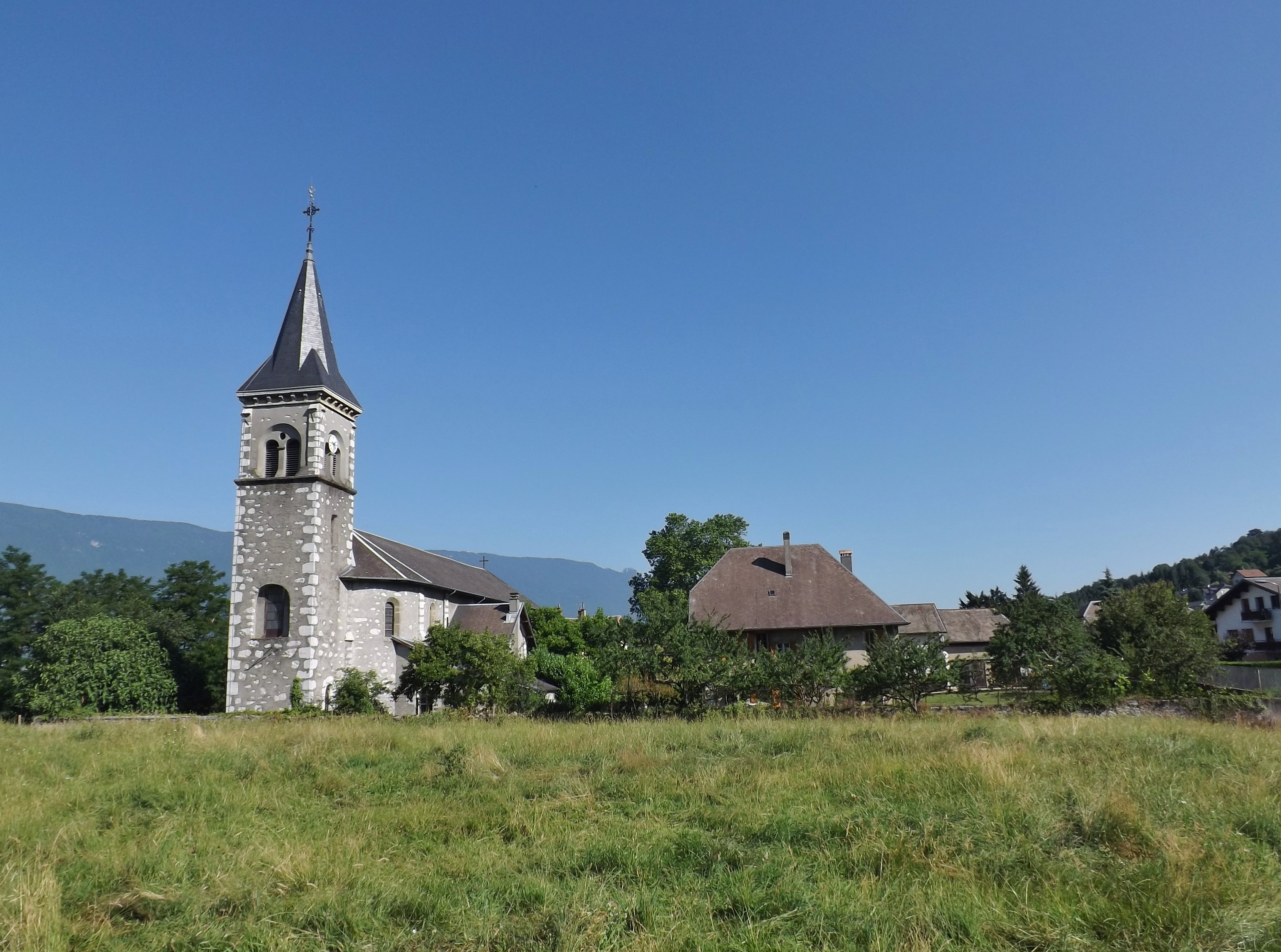 Sight of the previous called Saint-Ombre hamlet and its church, nowadays known as Chambéry-le-Vieux neighborhood, in Chambéry, Savoie, France.